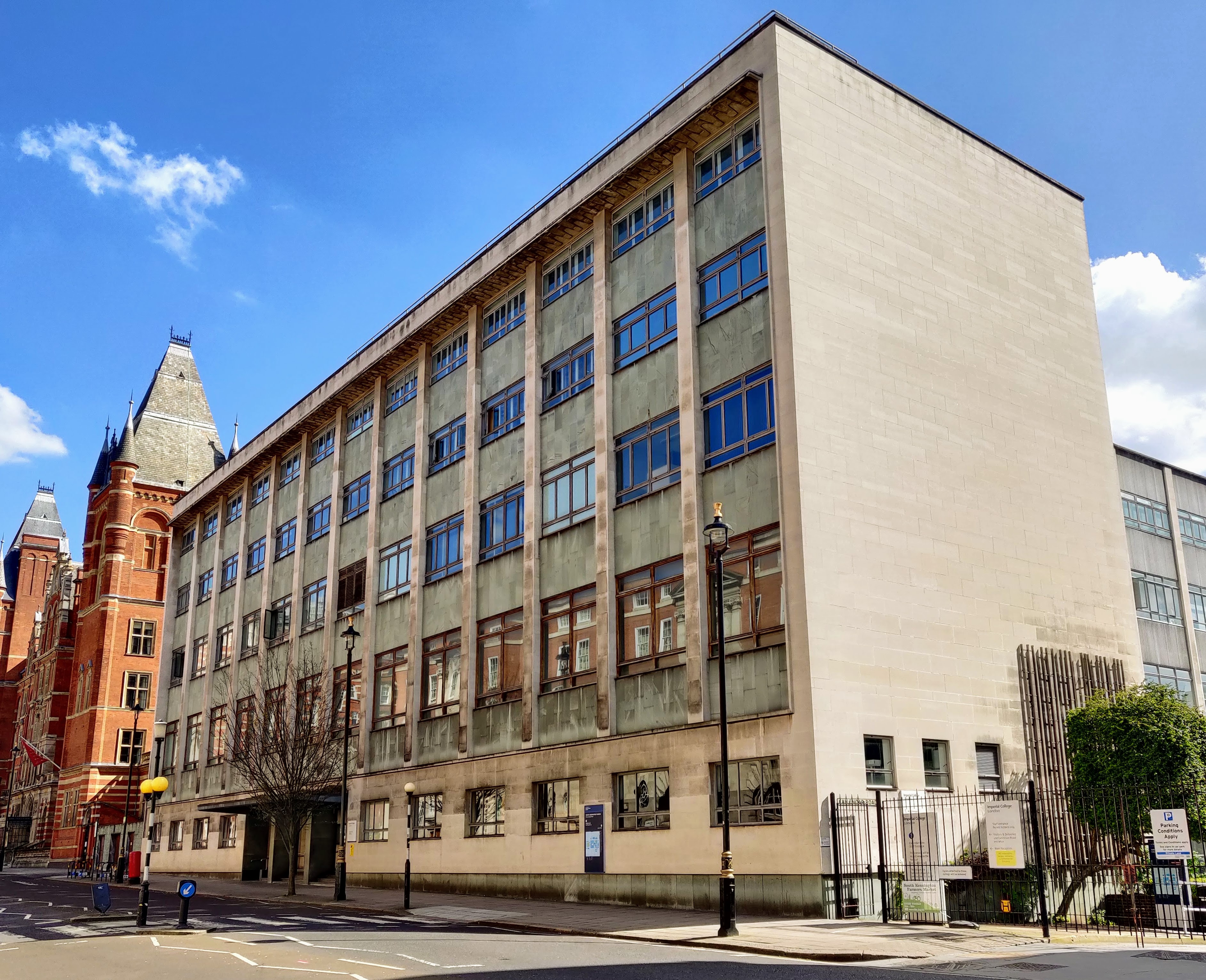 Located on Prince Consort Road next to Callendar Gate, the building is home to the Department of Aeronautics at Imperial College in South Kensington.